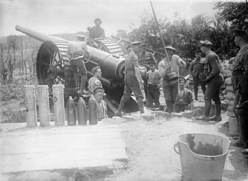 Photograph of British BL 6 inch Gun Mk 7 on Mk. 2 carriage, and 3 shell types, Reningelst, Flanders. See also File:6inchMkVIIGunColouredPostcardWWI.jpg